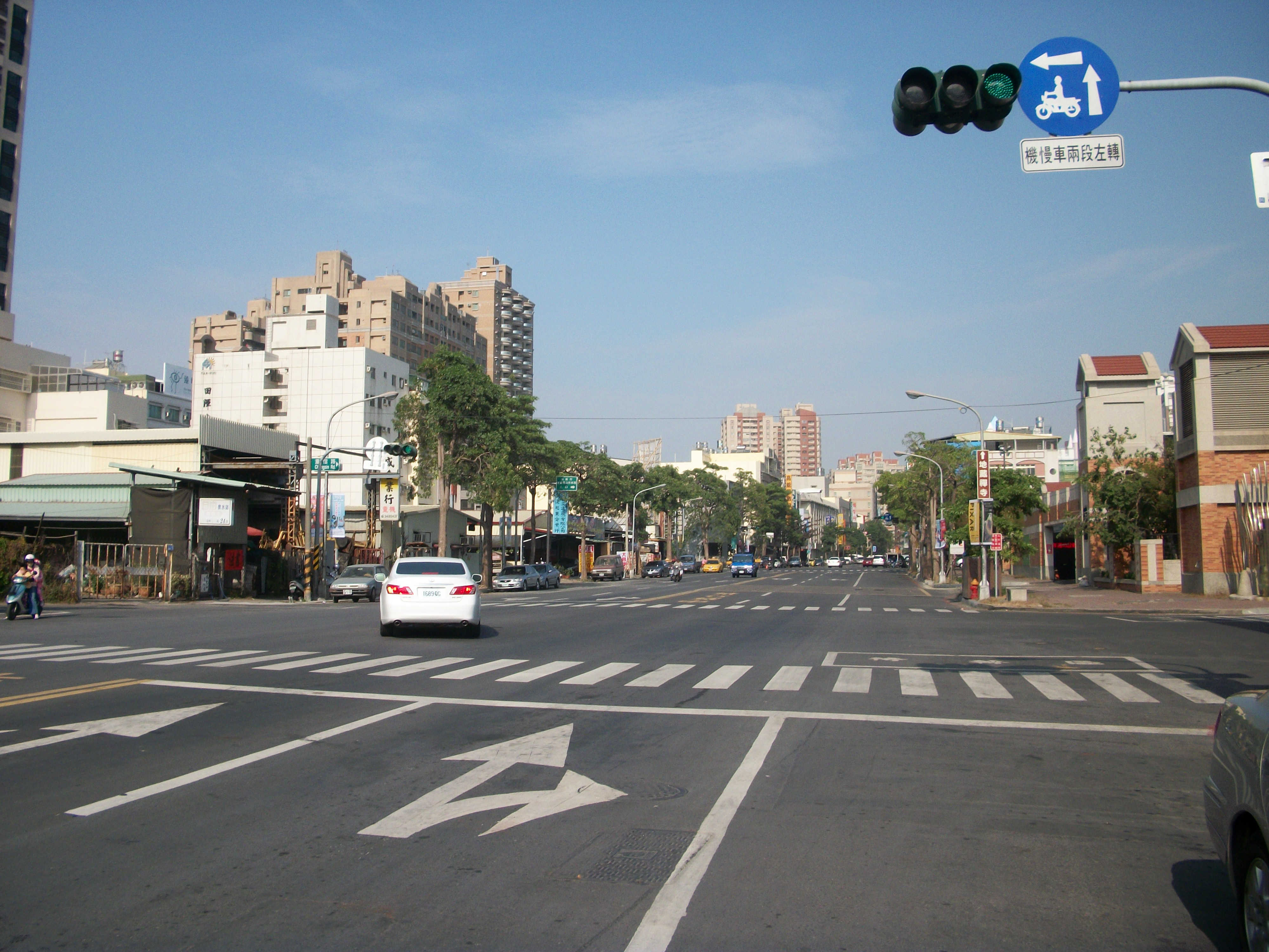 The intersection of Zi-You 4th Road in Kaohsiung City.